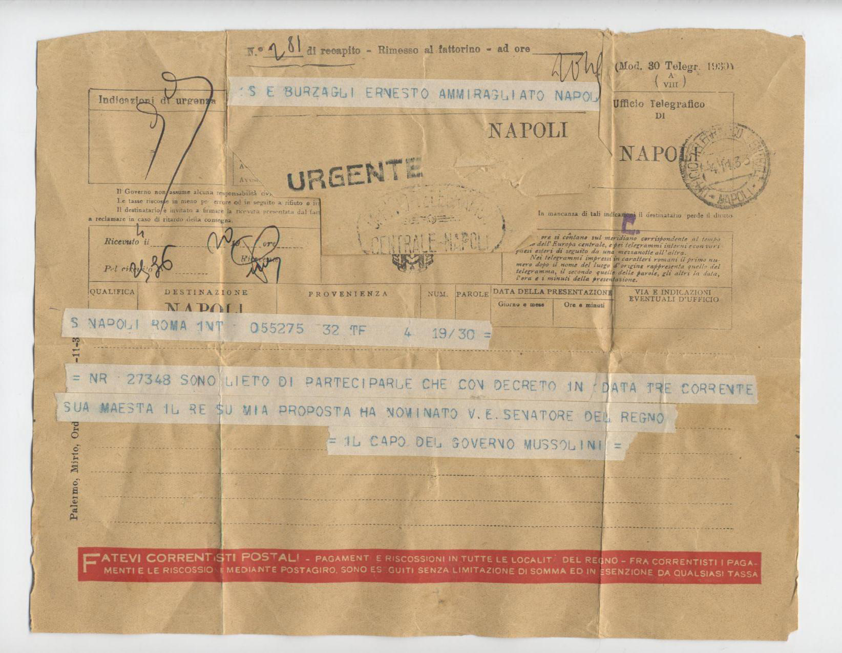 Telegram sent by Benito Mussolini to Admiral Ernesto Burzagli about his appointment as a Senator of Italian Kingdom.